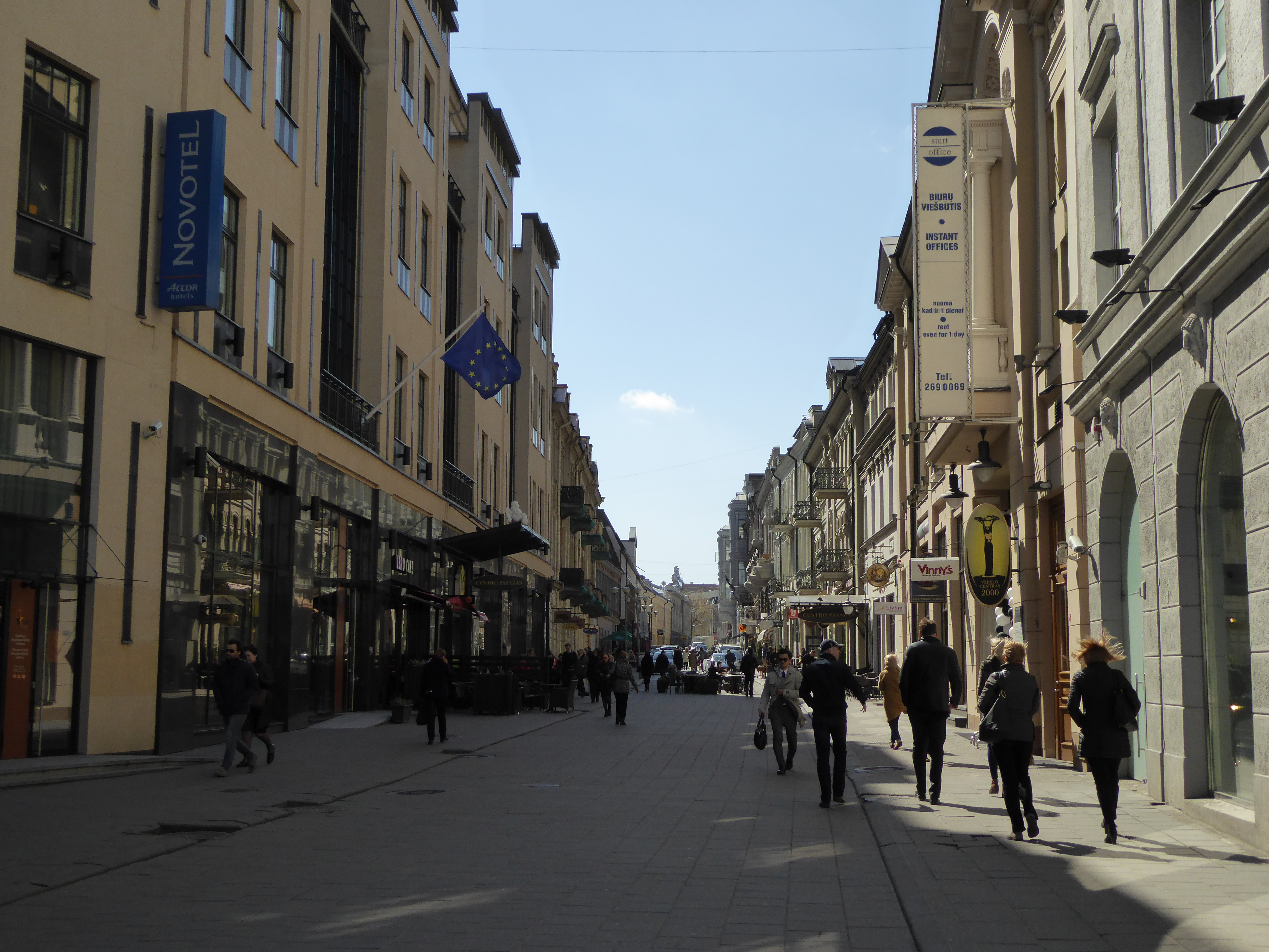 Vilniaus Street, Vilnius, Lithuania, April 2015 (near the junction with Gediminas Avenue)